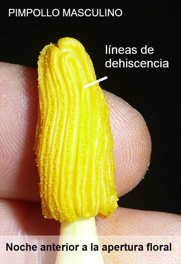 Cucurbita pepo "zapallo de Angola" semillería La Paulita. Fortín Olavarría town, Buenos Aires province, Argentina.